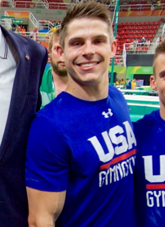 U.S. Secretary of State John Kerry and fellow members of the U.S. Presidential Delegation to the Summer Olympics pose for for a photo with the U.S. men's Olympic gymnastics team on August 6, 2016, at Olympic Park in Rio de Janeiro, Brazil. [State Department Photo/ Public Domain]